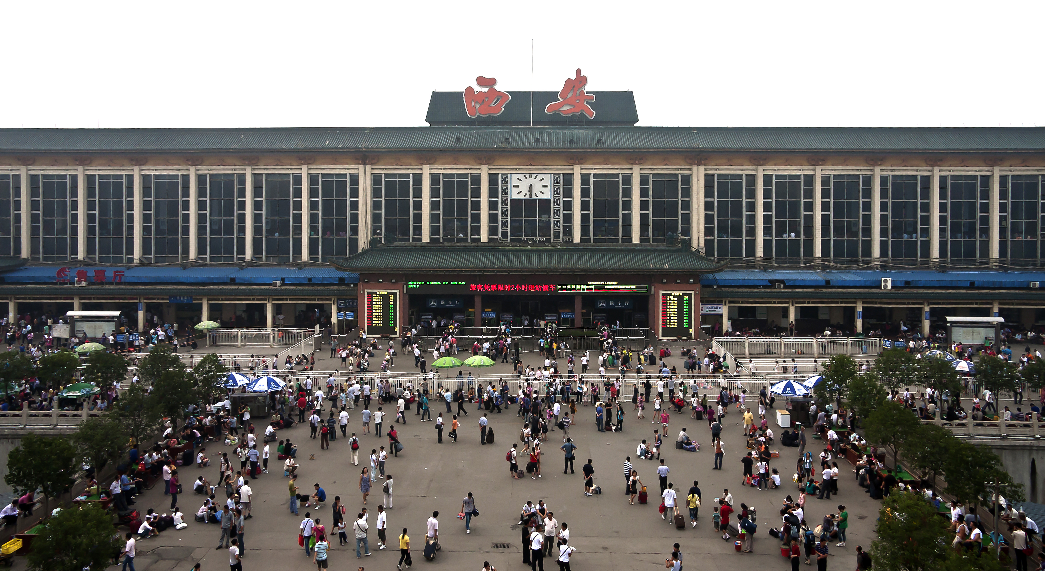 The central train station in Xi'an, China.